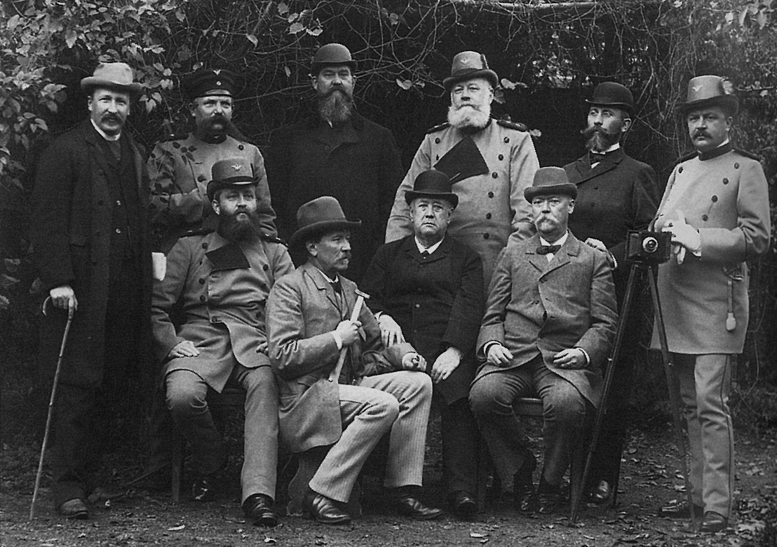 Examination Commission of the Ministry of Agriculture, Domains and Forestry (Berlin) to hold the forestry assessor examination on 28 October 1893 (from left seated): Wilhelm Liebrecht, Adolf Remelé, Bernard Altum, Anton Müttrich and (from left, standing): Frank Black, Adolf Runnebaum, Bernhard Danckelmann (not a member of the Commission), William Waechter, Karl Dickel and Johann Ludwig Boy (not a member).